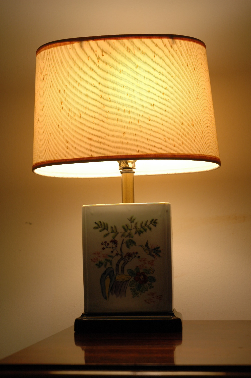 my photo, originally intended for Lamp, but then I found the other lamp pics here.